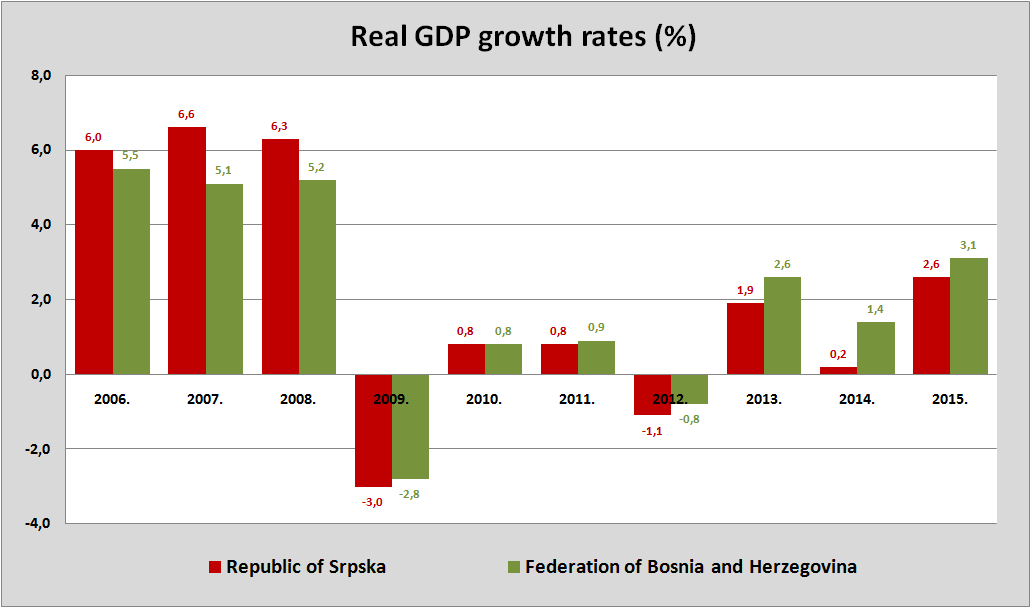 GDP in Republic of Srpska and Federation of Bosnia and Herzegovina, annual change in volume 2006 - 2014